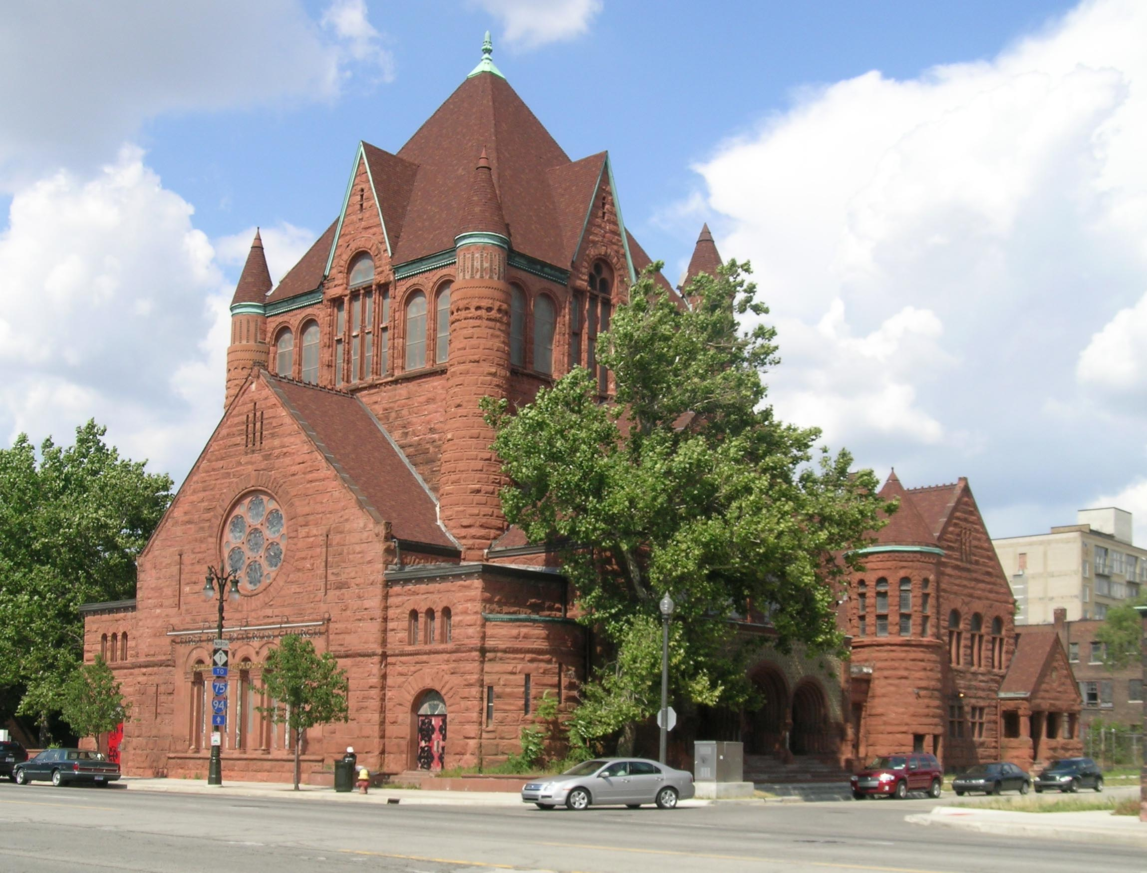 First Presbyterian Church — The Ecumenical Theological Seminary. At 2930 Woodward Avenue in the Brush Park neighborhood, mid-city Detroit, Michigan. Built in 1889 in the Romanesque revival Richardsonian Romanesque style. A Contributing property in the Brush Park Historic District, a Michigan State Historic Site, and on the National Register of Historic Places.